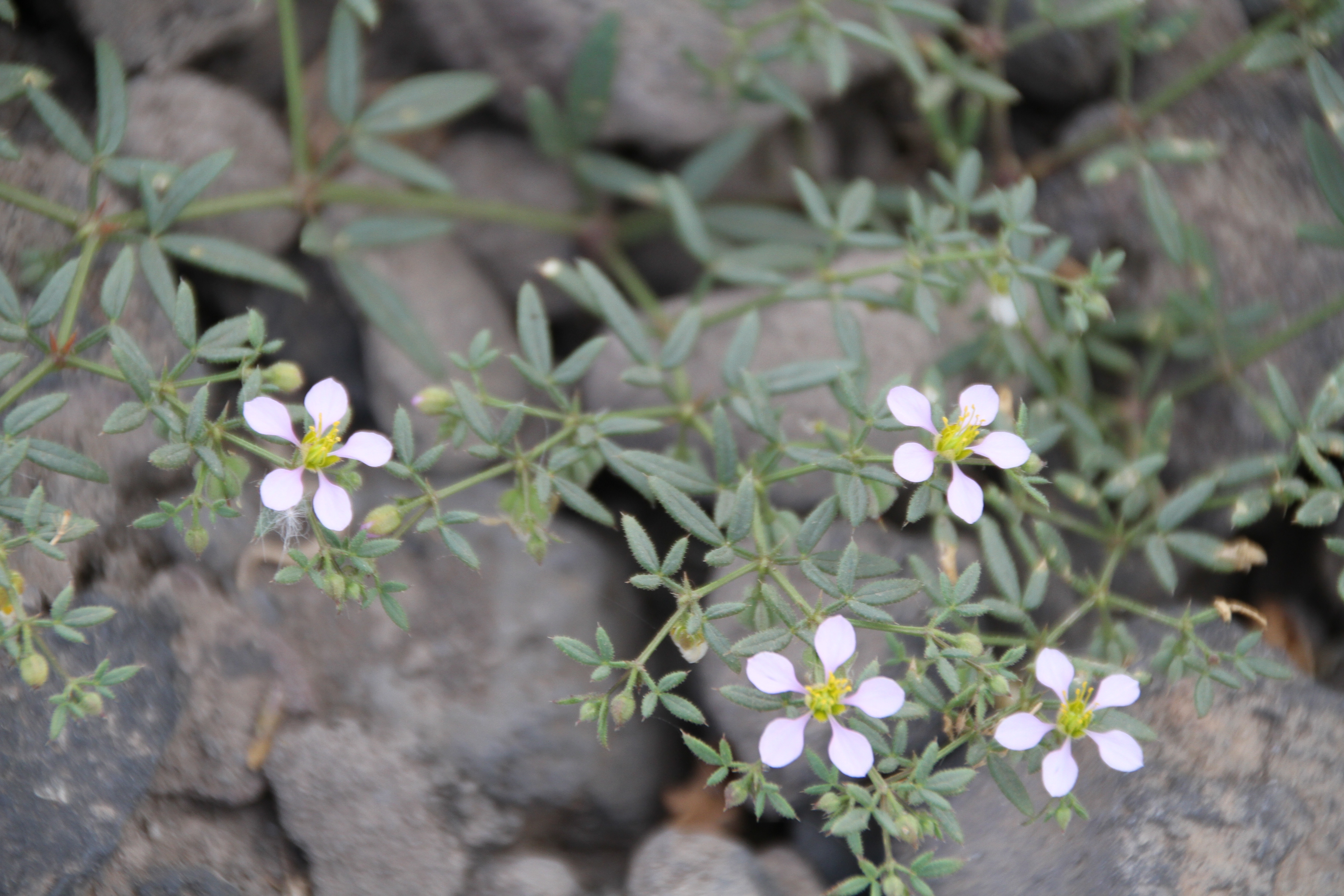 Fagonia albiflora growing on the coastal strip immediately south of the Los Gigantes ettlement, Tenerife (Spain).